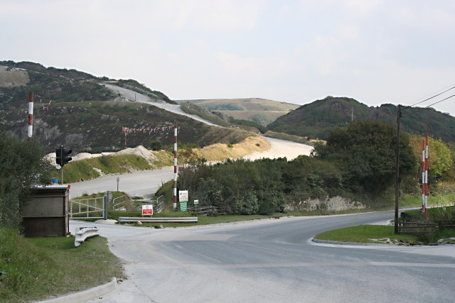 Entrance to the Gunheath Pit The box and traffic lights at the side of the road is a traffic control point, not for traffic on the public road but for the very large trucks which cross it.